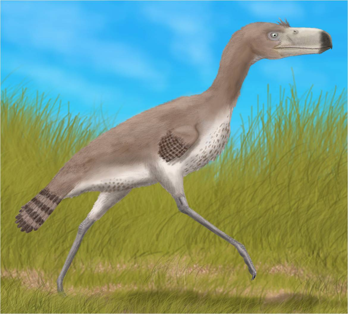 Life restoration of the terror bird Procariama simplex.